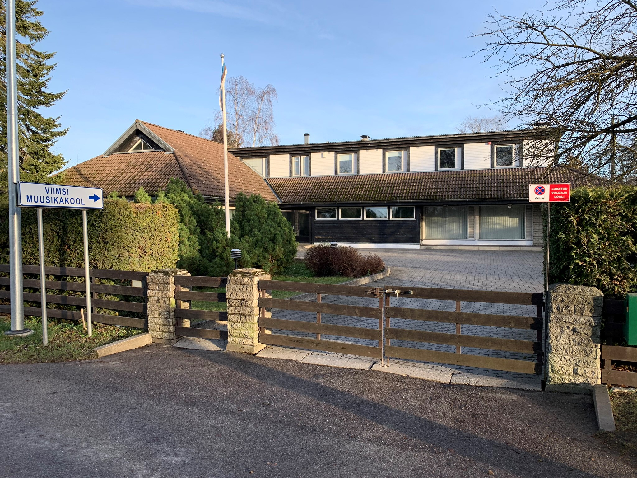 Viimsi Music School, Haabneeme December, 2019 Estonia